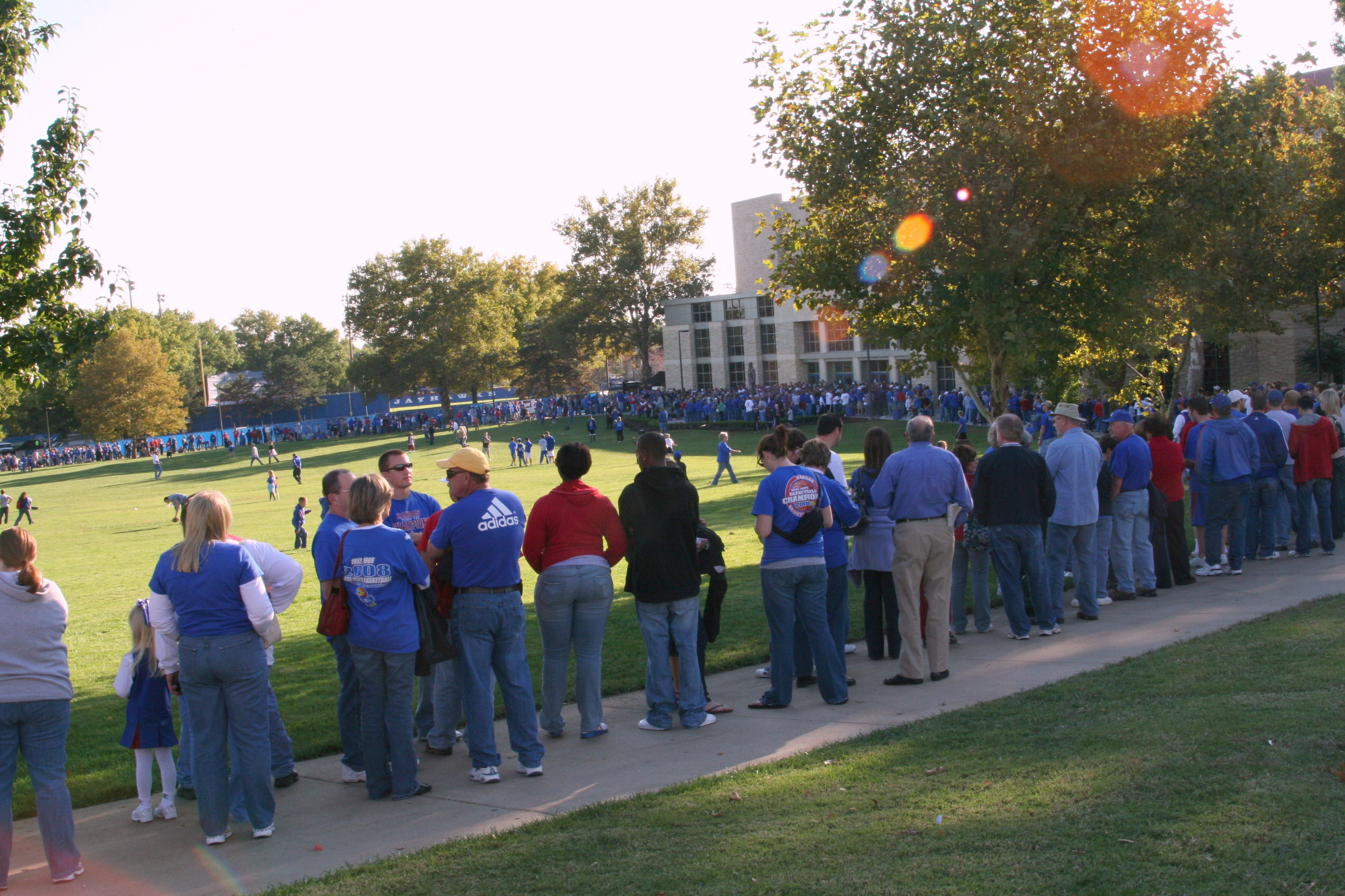 Kansas Jayhawks fans wait for the Midnight Madness celebration where they will raise their championship banner.